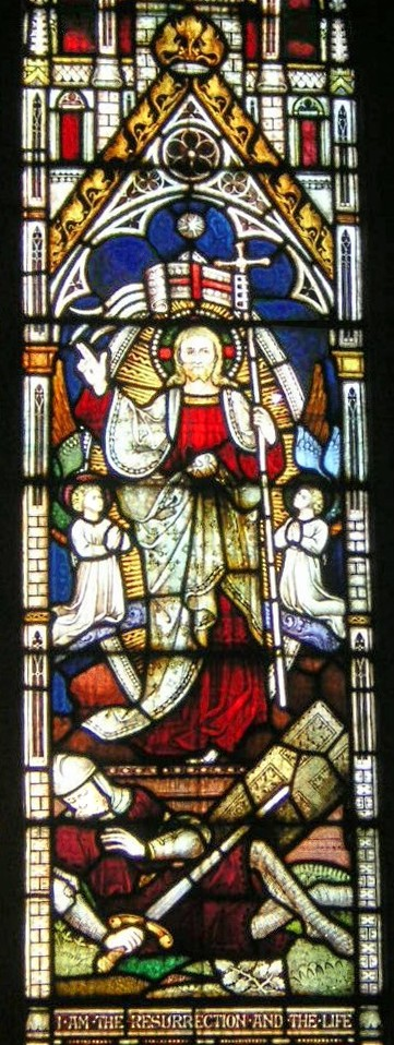 Church of England parish church of St Peter, Burnham, Buckinghamshire: detail of east window